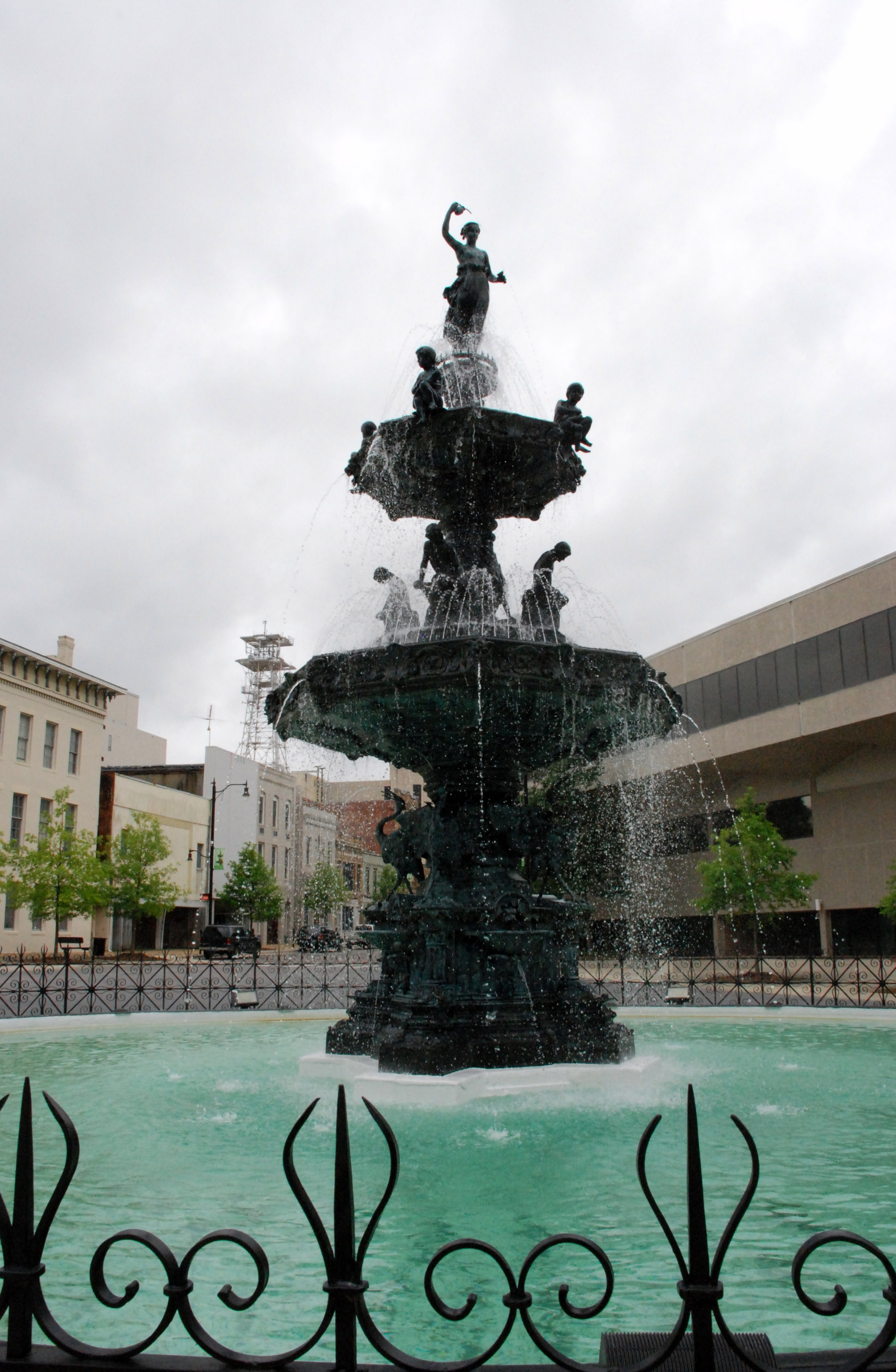 Court Square Fountain on Dexter Avenue in Montgomery, Alabama. Topped by a statue of Hebe, the goddess of youth and cupbearer to the gods, the fountain was built in 1885.